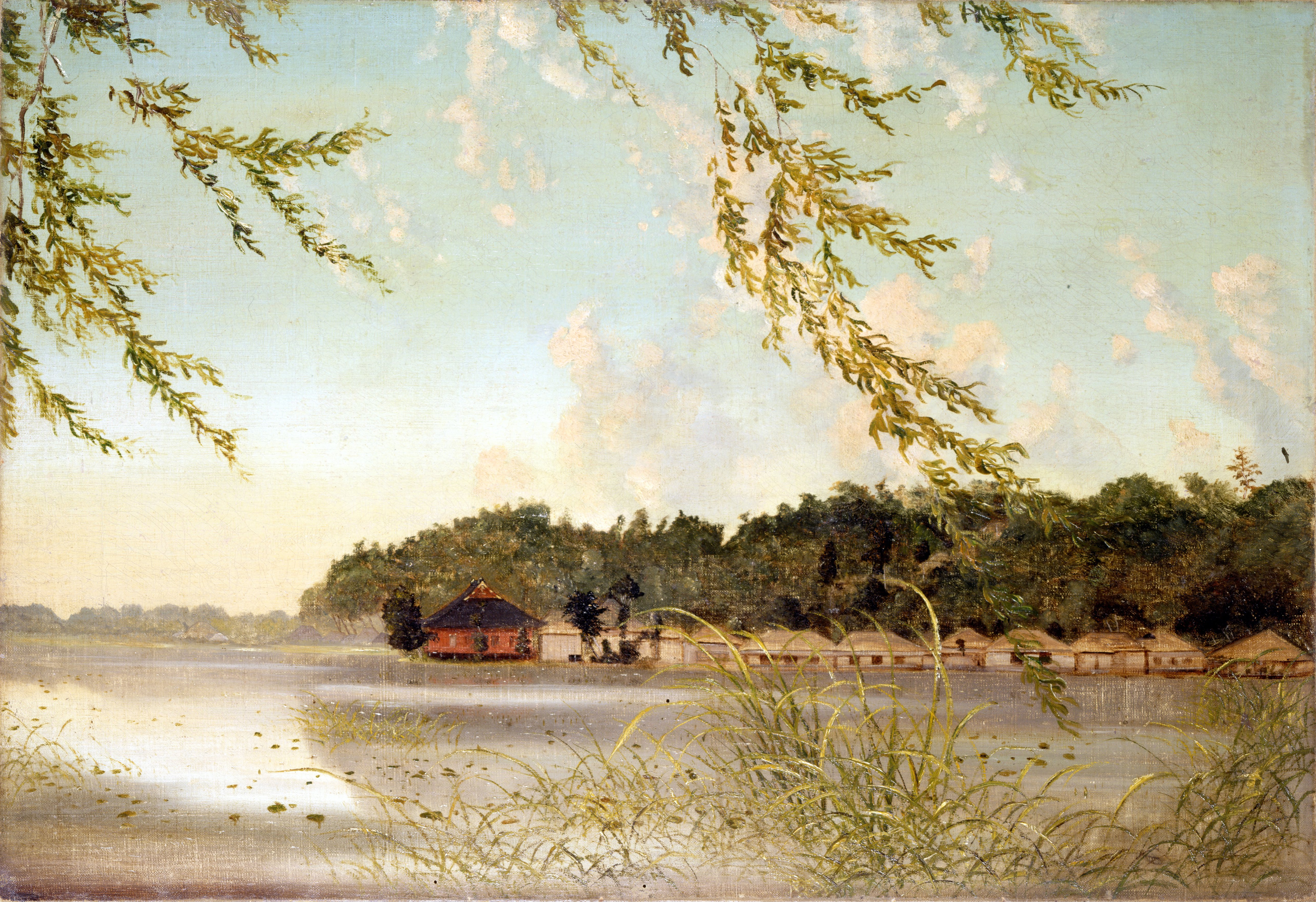 Shinobazu Pond by Takahashi Yuichi, Aichi Prefectural Museum of Art, Nagoya, Aichi, Japan